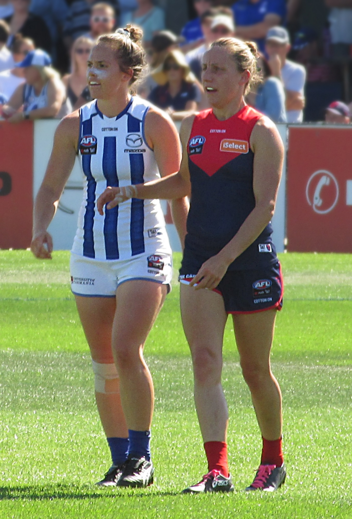 Emma Kearney from North Melbourne and Karen Paxman from Melbourne stand next to each other during an AFL Women's match at Casey Fields in East Cranbourne, VIC.